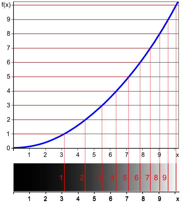 Represention of datapoints (x